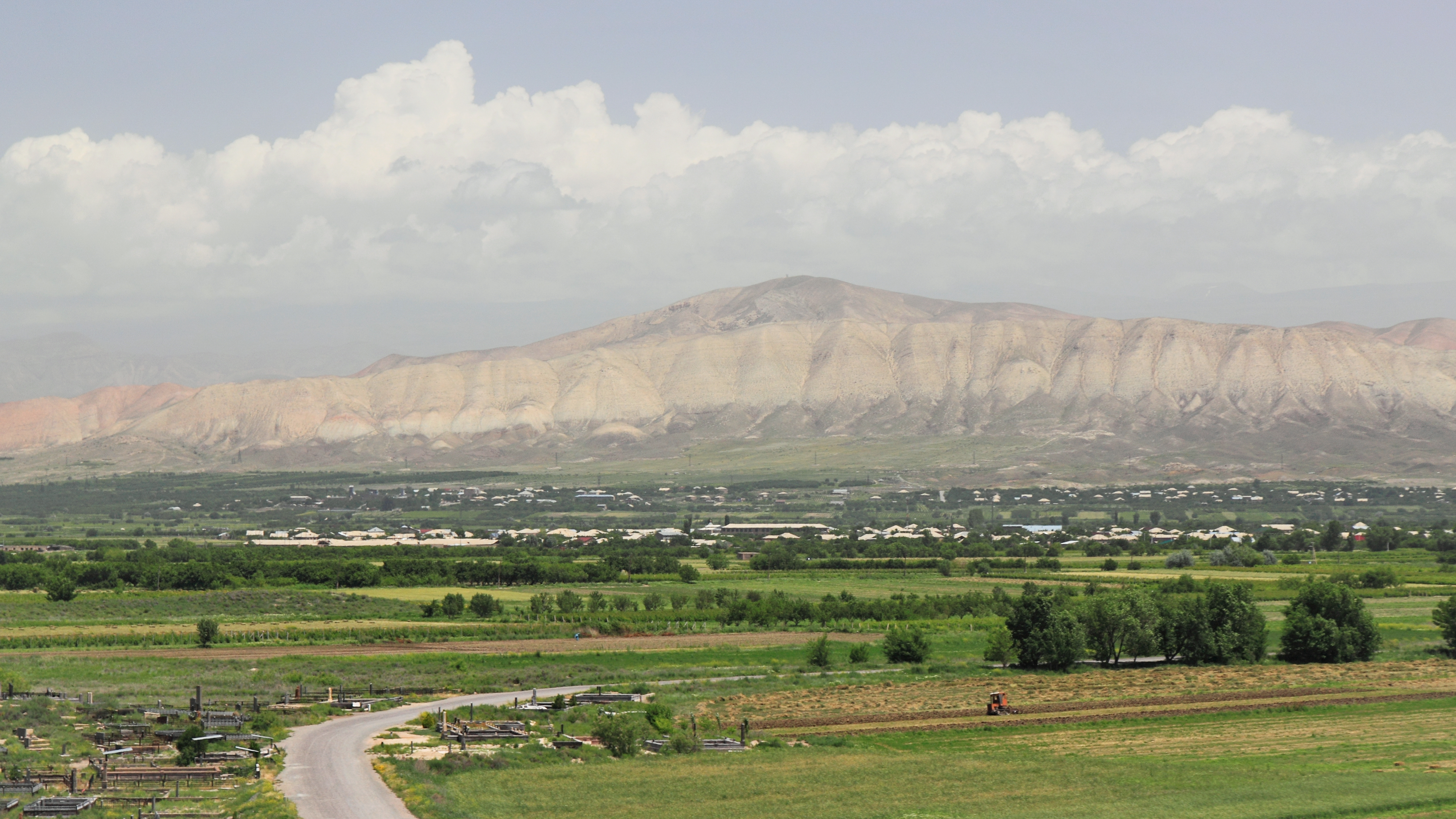 Landscape seen from the Khor Virap monastery. Ararat Province, Armenia.